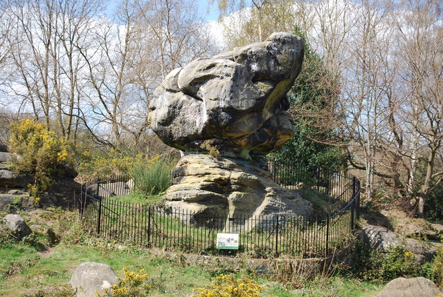 Toad Rock A "Tor" like feature formed by a combination of physical & chemical weathering of Tunbridge Wells Sandstone. An Ice age relict feature. There are other features in the area at & the Wellington rocks